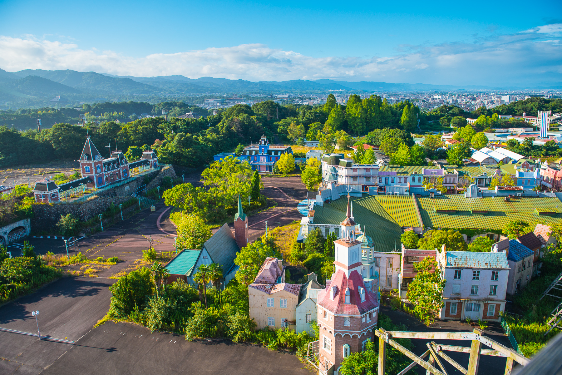 Nara Dreamland, an abandoned attraction park in Nara, Japan. The city of Nara can be seen in the background.